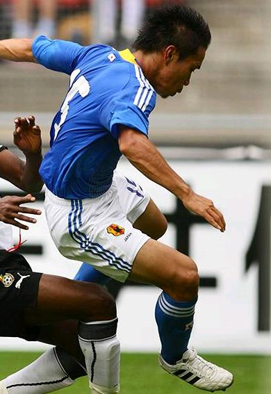 SEPTEMBER 9, 2009 - Football : Yuto Nagatomo of Japan in action during the international friendly match between Japan and Ghana at Galgenwaard Stadium on September 9, 2009 in Utrecht, Netherlands. (Photo by Tsutomu Takasu) This file has been extracted from another file: Flickr - tpower1978 - International friendly match.jpg